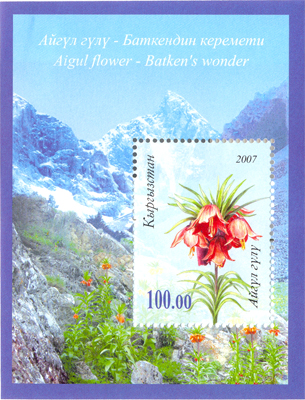 Stamp of Kyrgyzstan